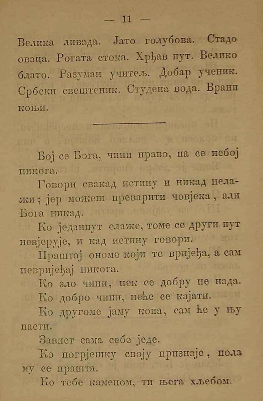 Alphabet Book for Serb elementary schools in the Ottoman Vilayet of Bosnia, page 11